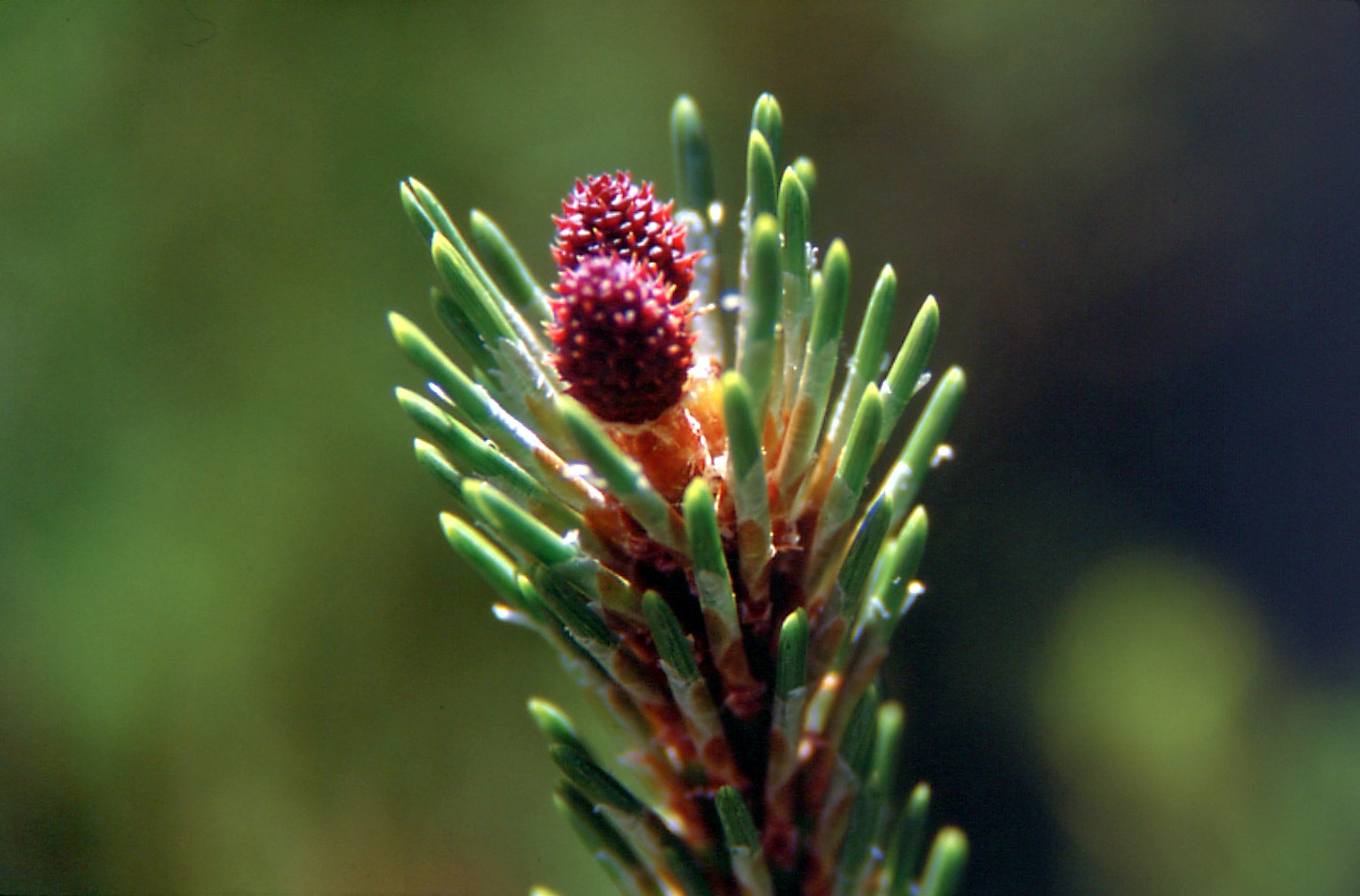 Mountain Pine. Young shoot with immature female cones.